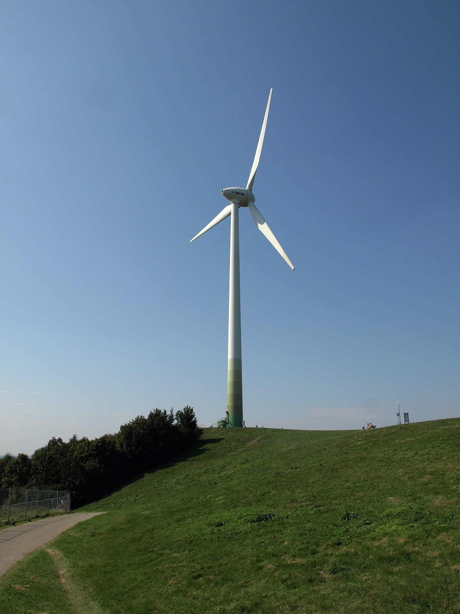 Wind turbine SVM Munich at Fröttmaning / Munich - Foenix